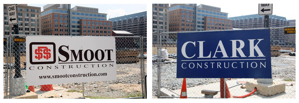 Construction signs of the Clark-Smoot Joint Venture, the primary construction contractors at CityCenterDC. CityCenterDC is a $950 million construction project consisting of six buildings, which broke ground in April 2011 in the heart of Washington, D.C., in the United States.